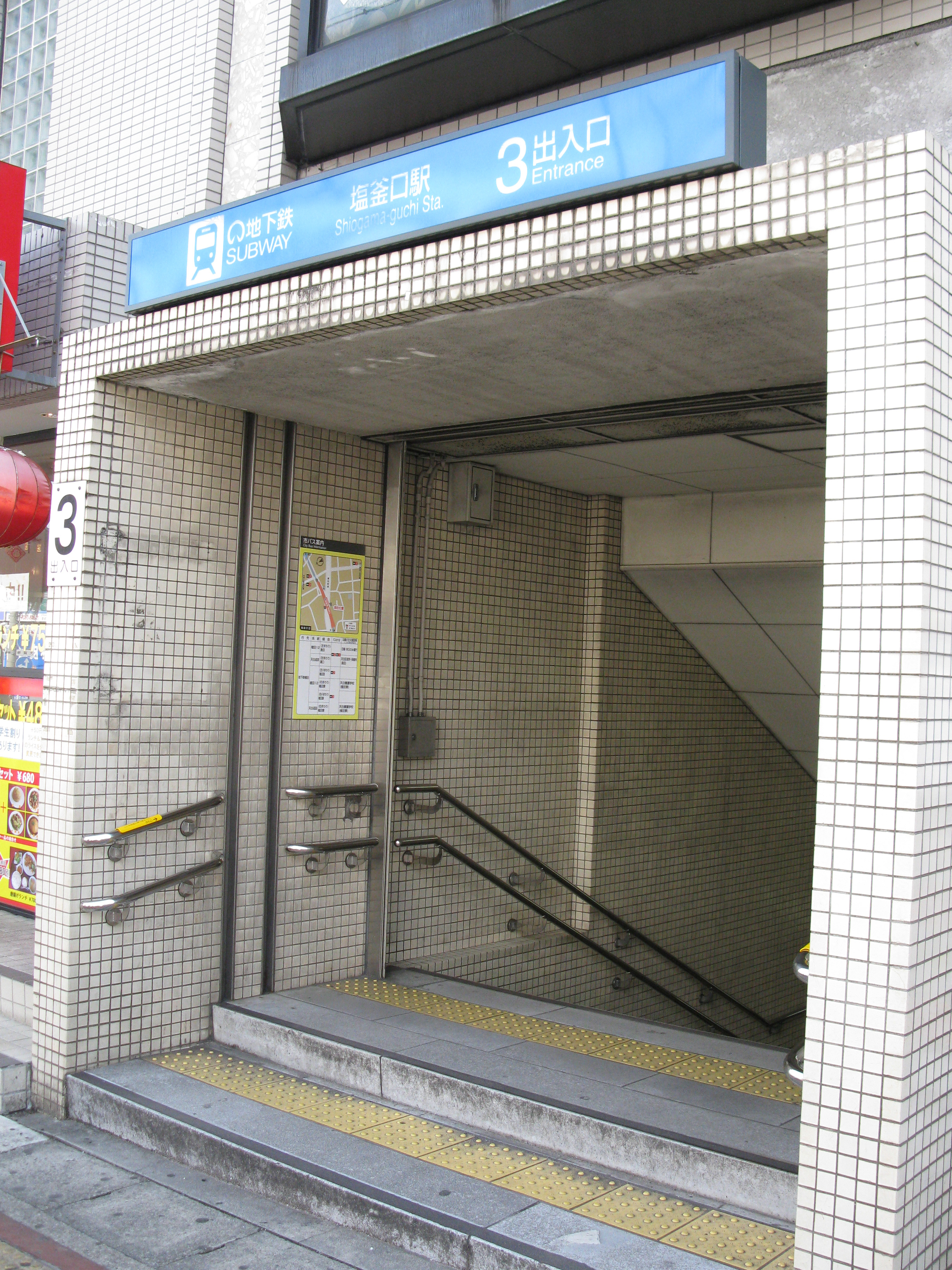 Shiogama-guchi Station no.3 entrance (Nagoya Municipal Subway Tsurumai Line)